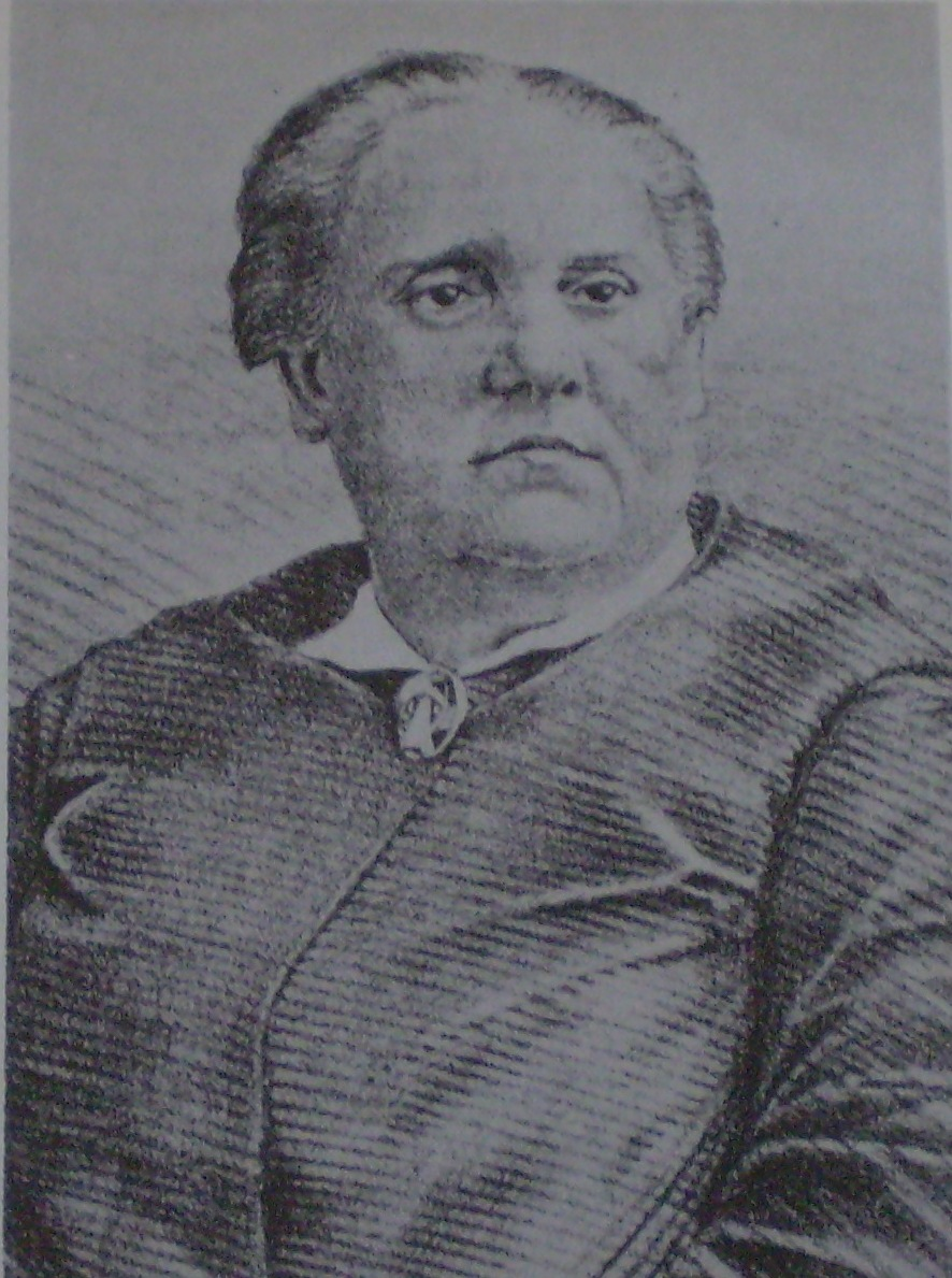 Engraving of Juana Manso (1819-1875) based in a daguerreotype of estimated date 1860-1875 (see original daguerreotype)